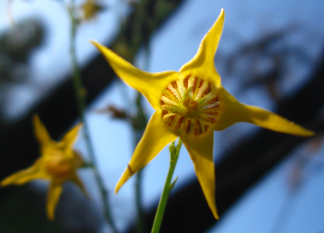 Anthrocercis littorea Yellow Tail flower It's high summer in Australia but these ones don't seem to mind the heat.